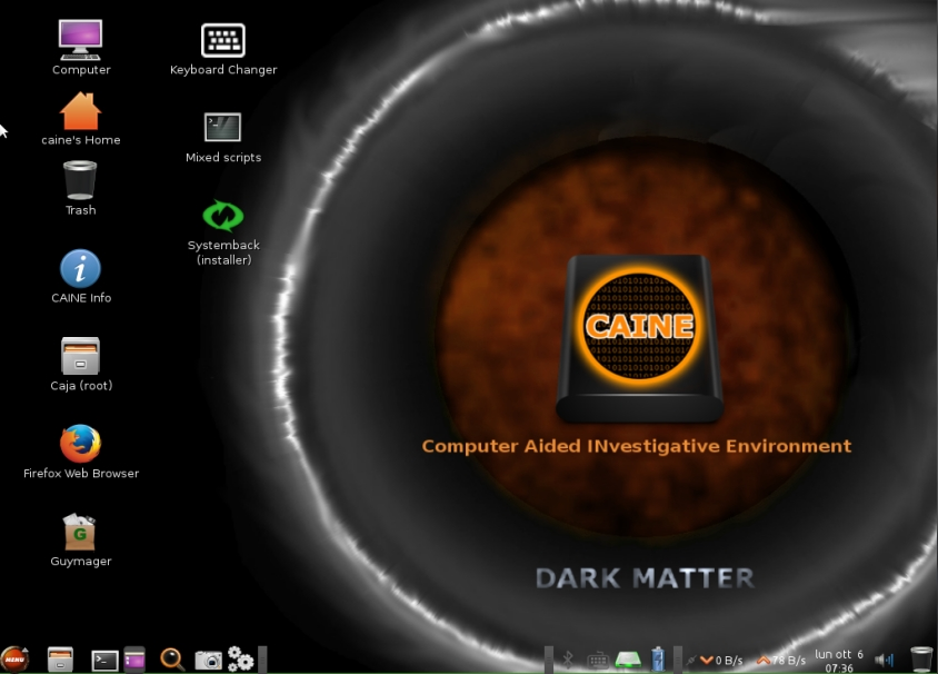 Screenshot of a working CAINE Linux distro